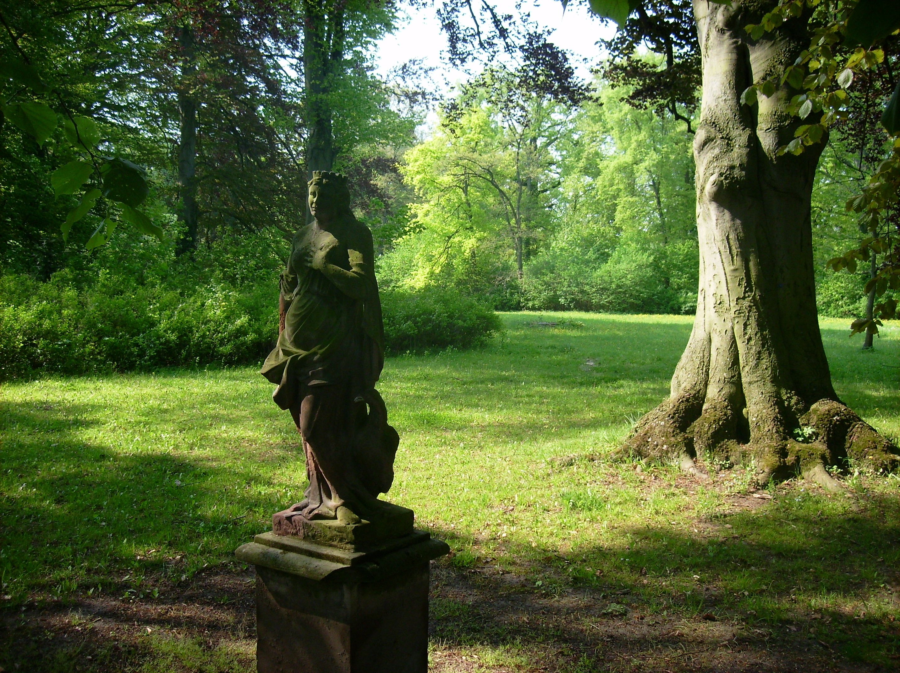 A sculpture in the gardens of Burgscheidungen Castle (Laucha an der Unstrut, district of Burgenlandkreis, Saxony-Anhalt)